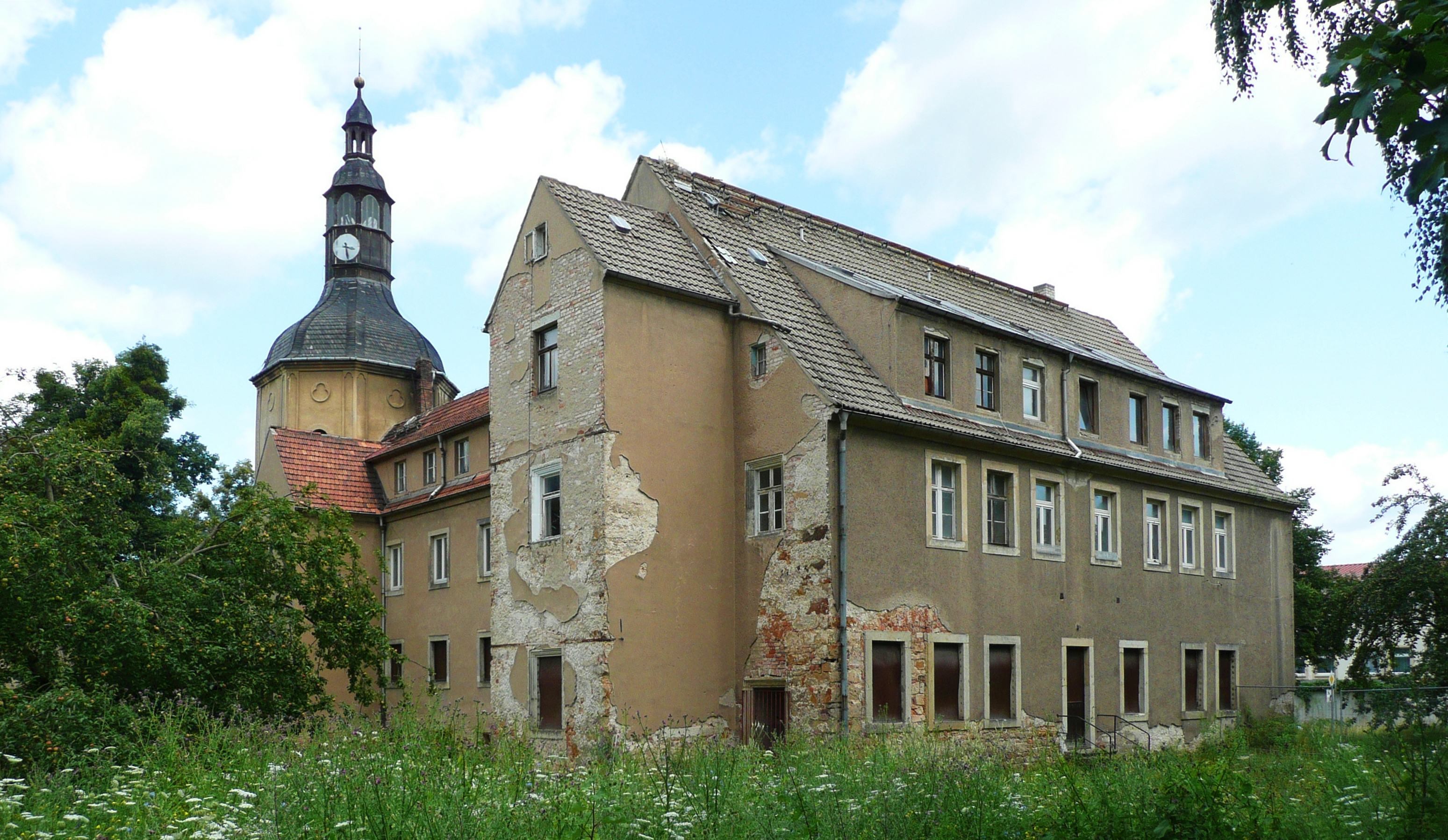 This image shows Zehista Castle (Schloss Zehista) in Zehista.